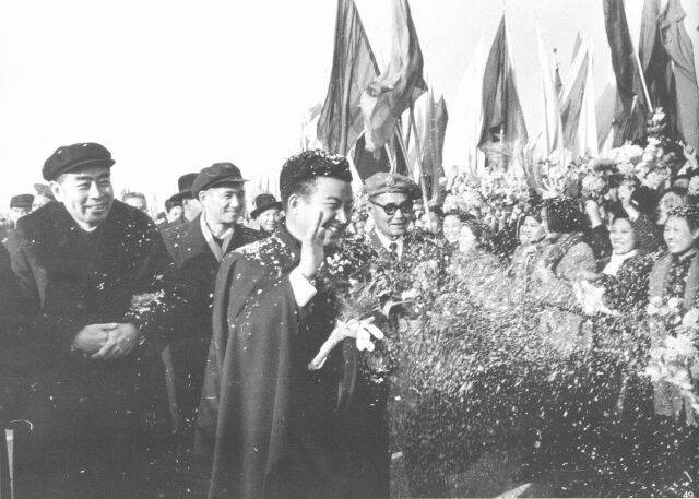 1956年2月13日至21日，西哈努克亲王率领柬埔寨国家代表团访问中国。周恩来和首都群众在北京机场热烈欢迎。